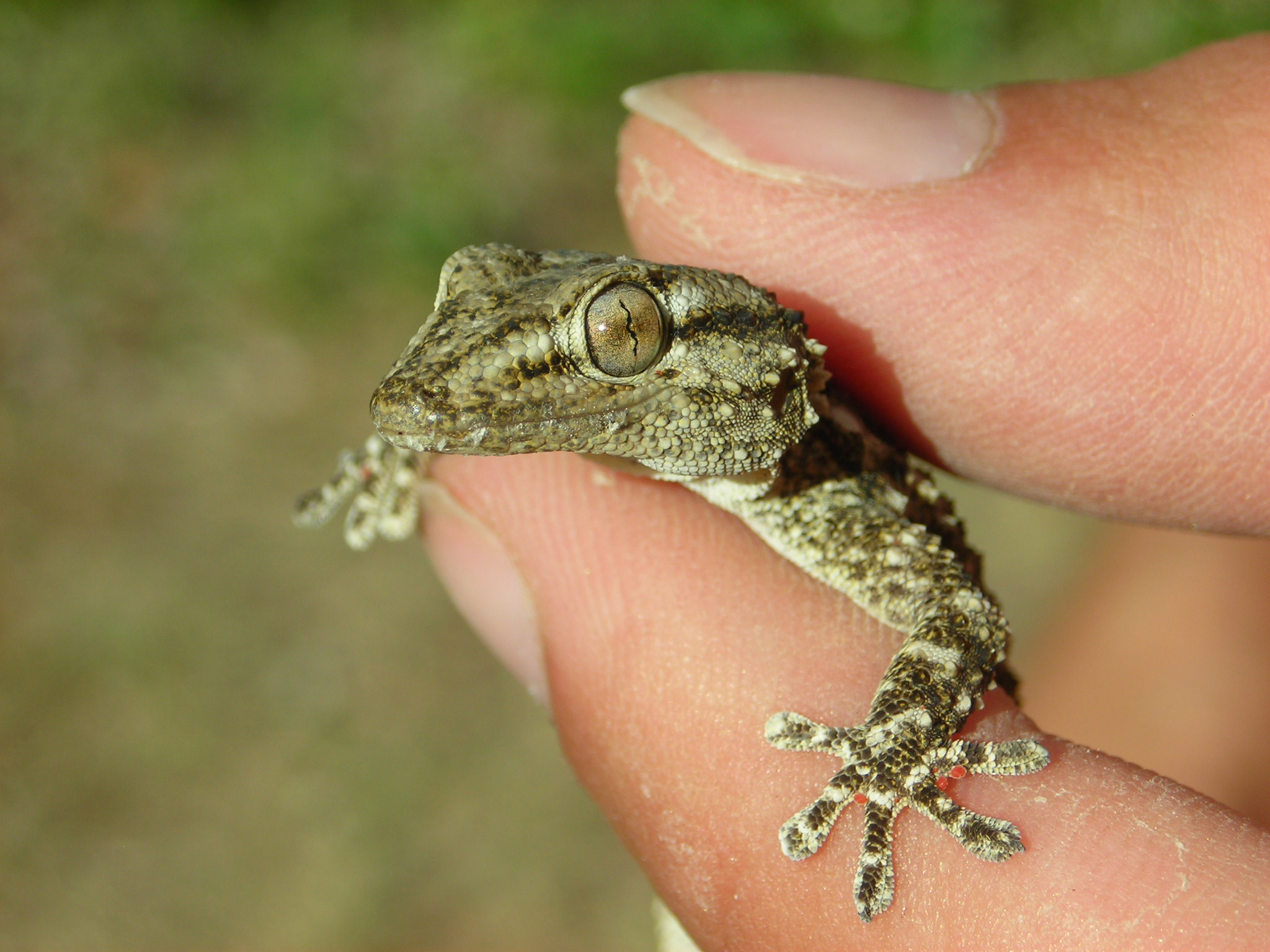 Tarentola mauritanica in Calabria (Italy)